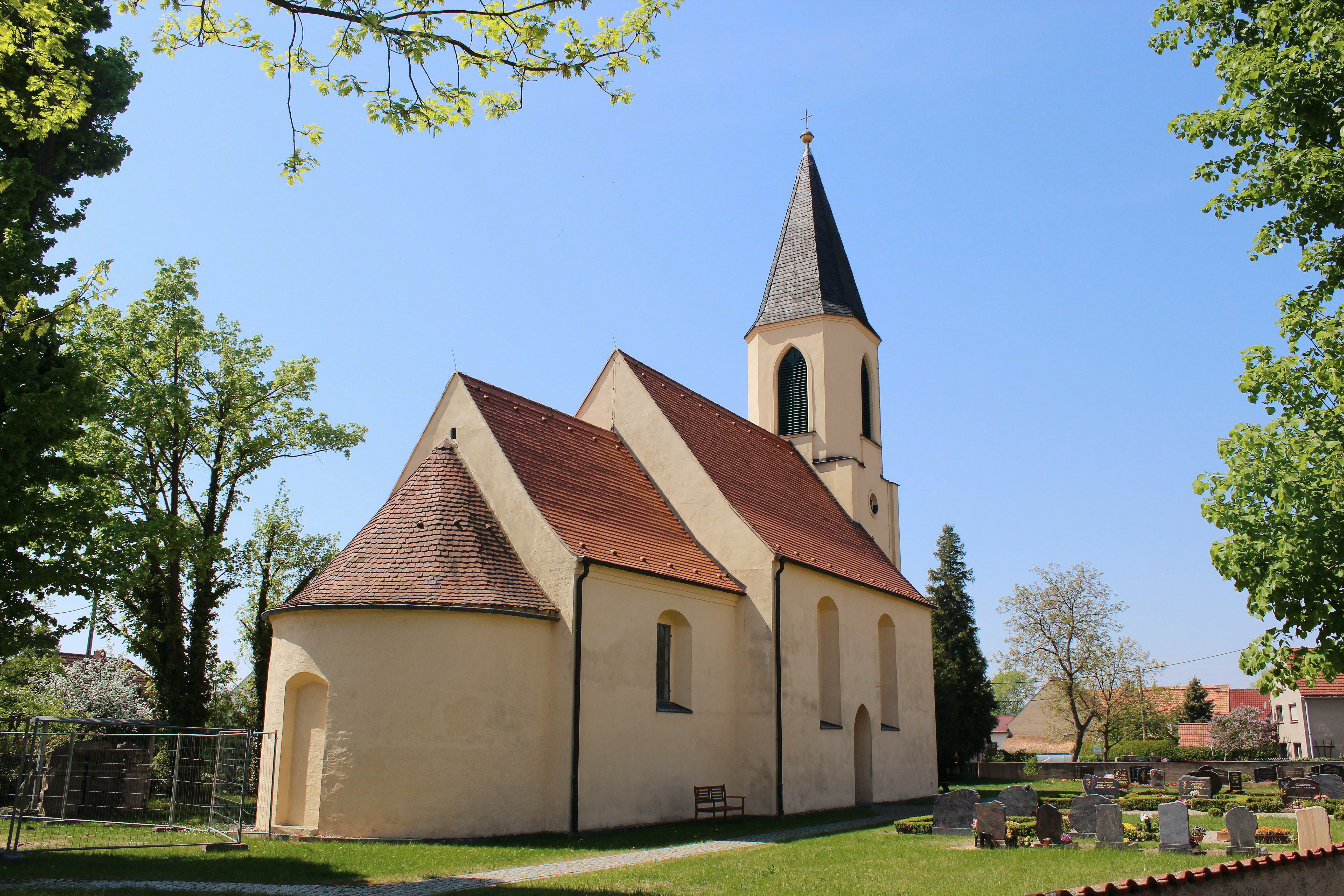 The village church of Strauch in Saxony. The Belltower was built in the year 1864.